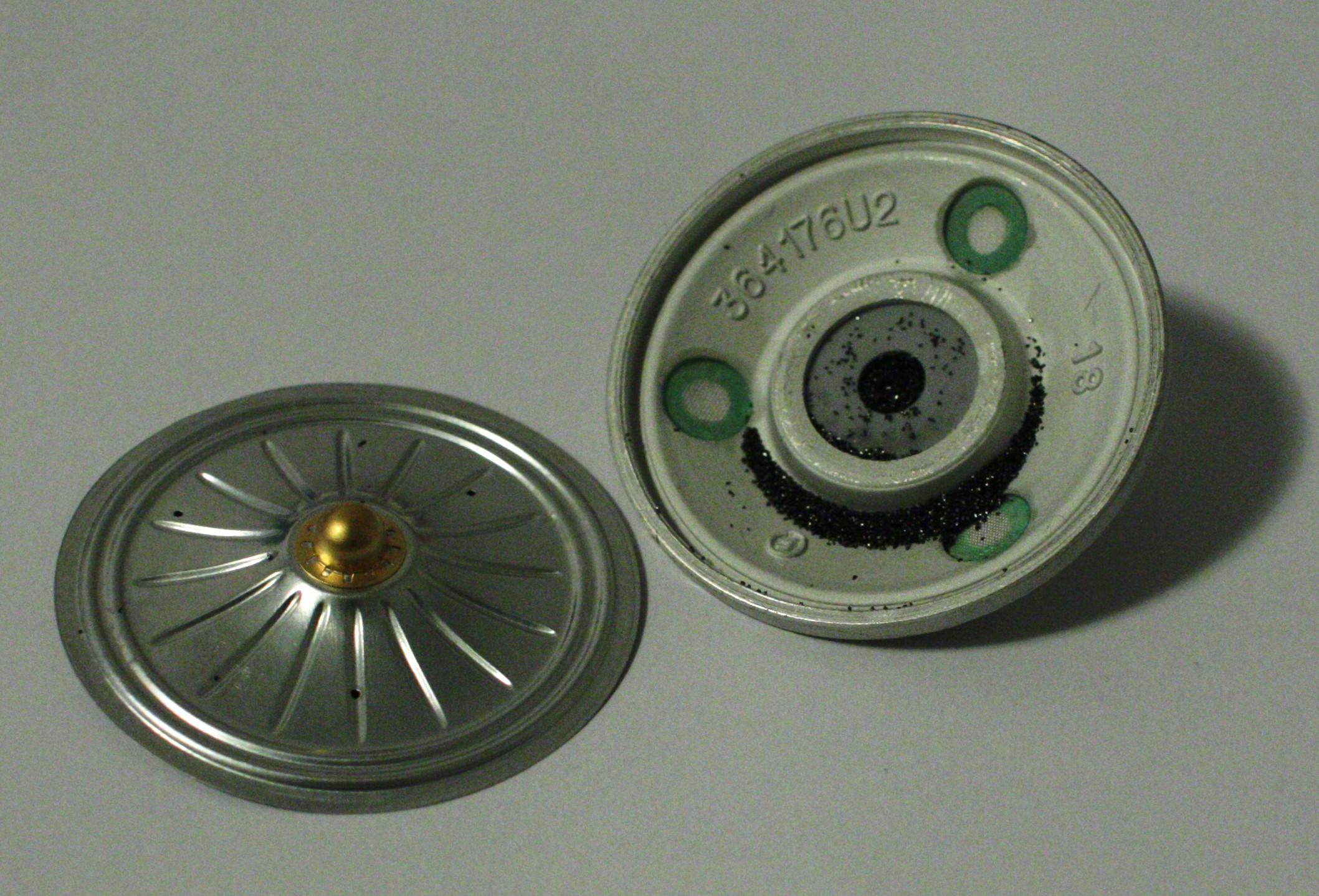 The insides of an Ericsson carbon microphone from a telephone. Some of the carbon has fallen out of the central hole.